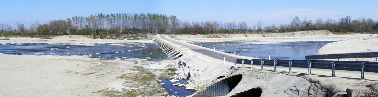 The ford on Pellice creek between Zucchea and Cavour (TO, Italy)